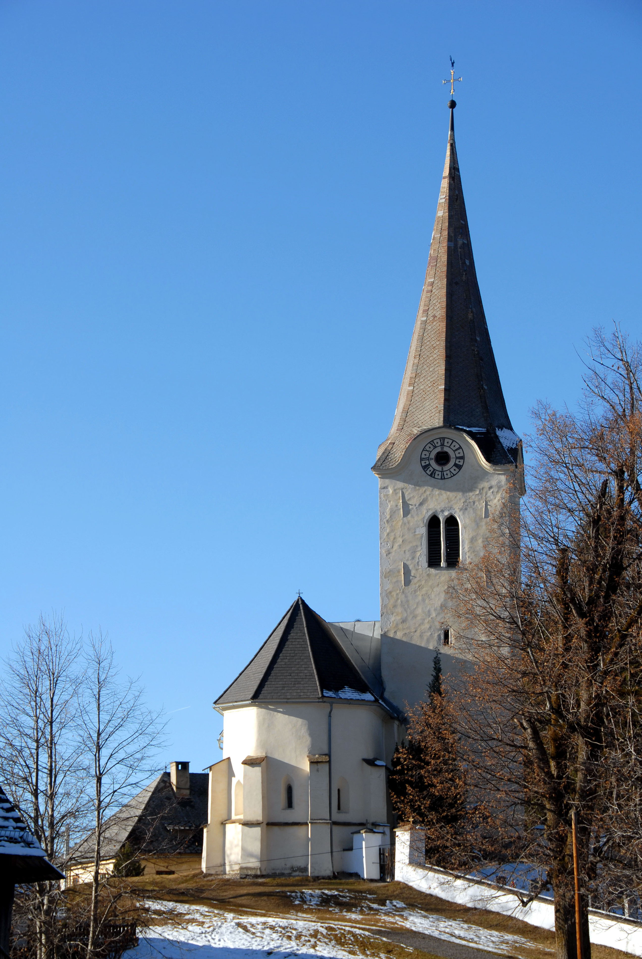 Parish church Holy Oswald at Saint Oswald, market town Eberstein, district Sankt Veit an der Glan in Carinthia / Austria / European Union